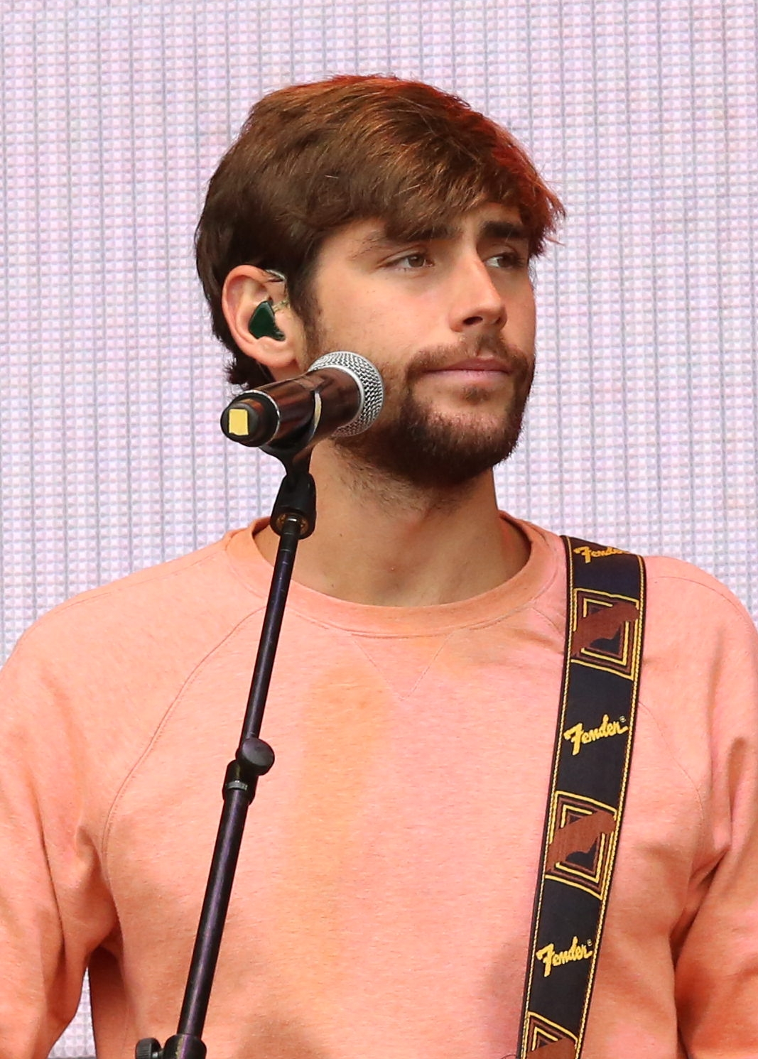 Álvaro Soler at the Tag der Sachsen 2017 in Löbau; Radio PRS stage at the fairgrounds